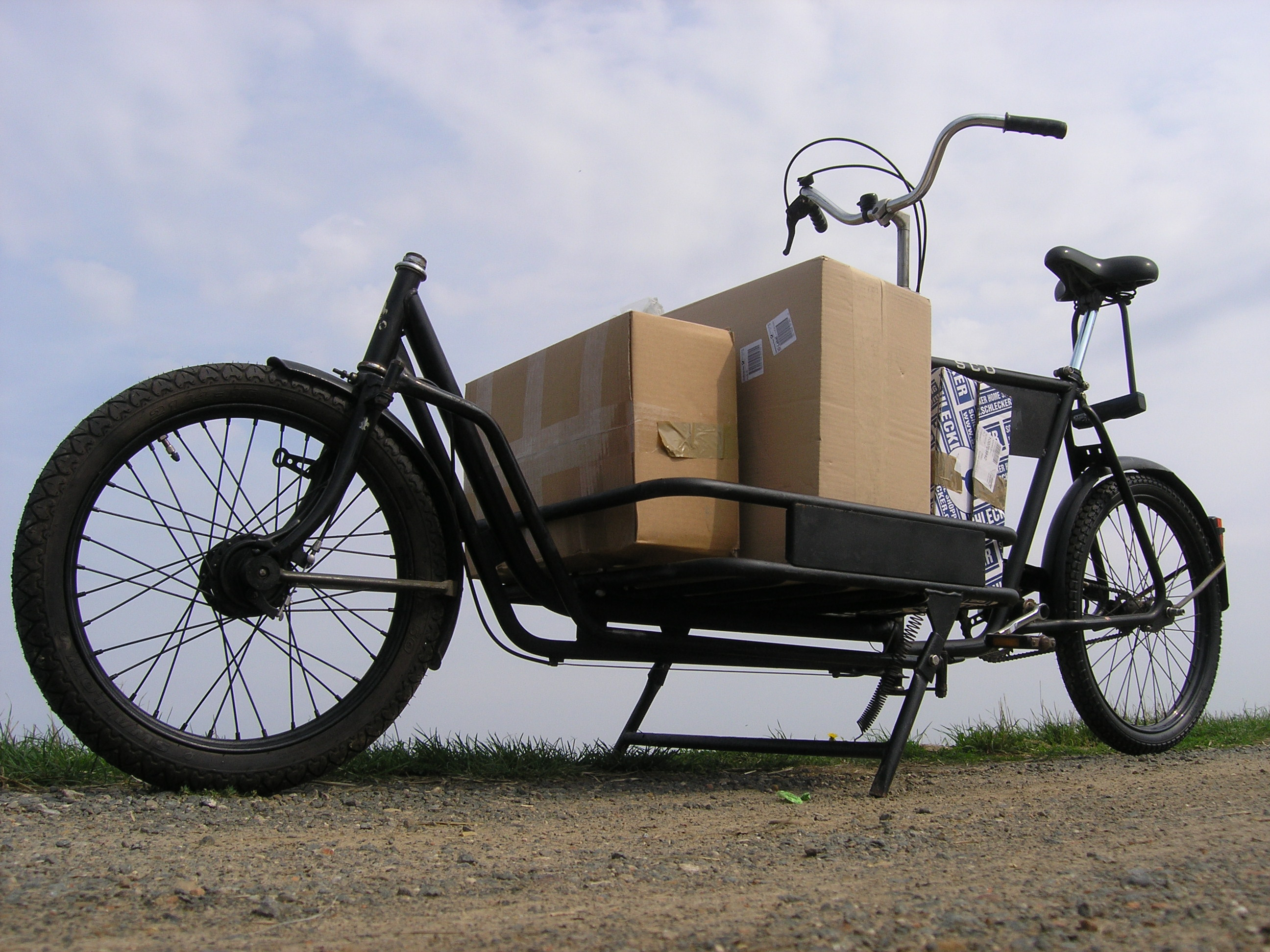 Heavy duty freight bicycle made by SCO, Denmark. Can carry more than 100 kg.